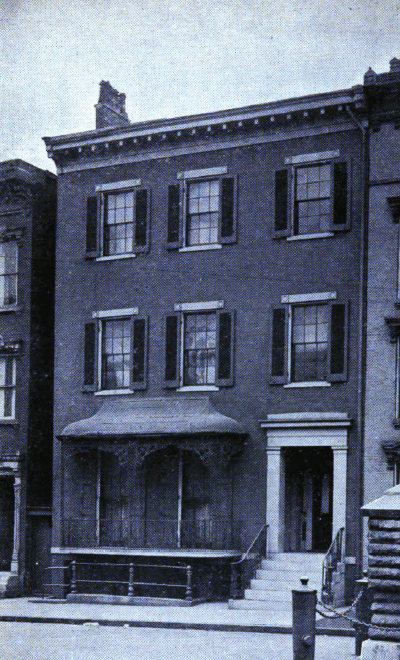 home in Cincinnati of Daniel Drake